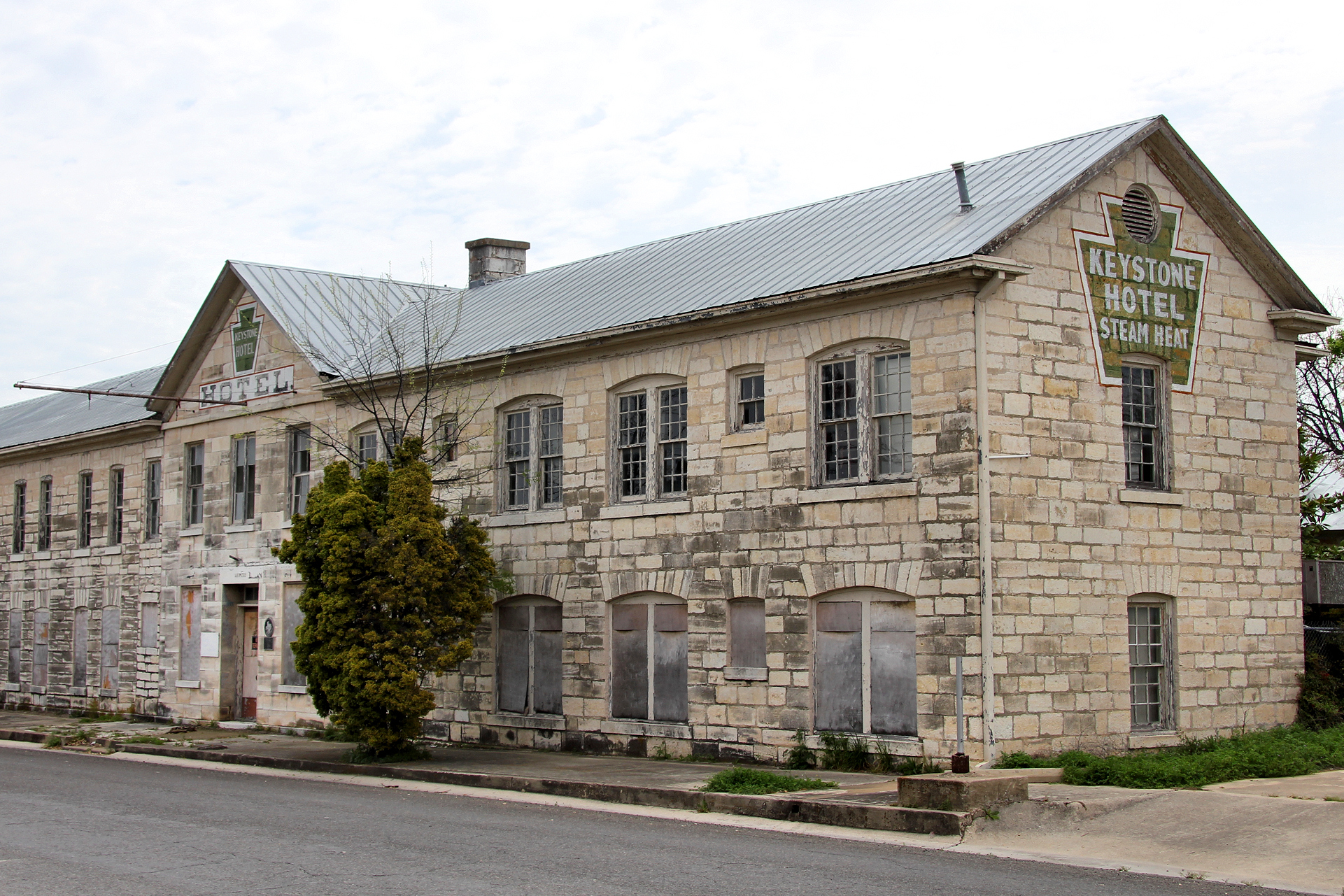 The Keystone Hotel in Lampasas, Texas, United States. The hotel was designated a Recorded Texas Historic Landmark in 1965.